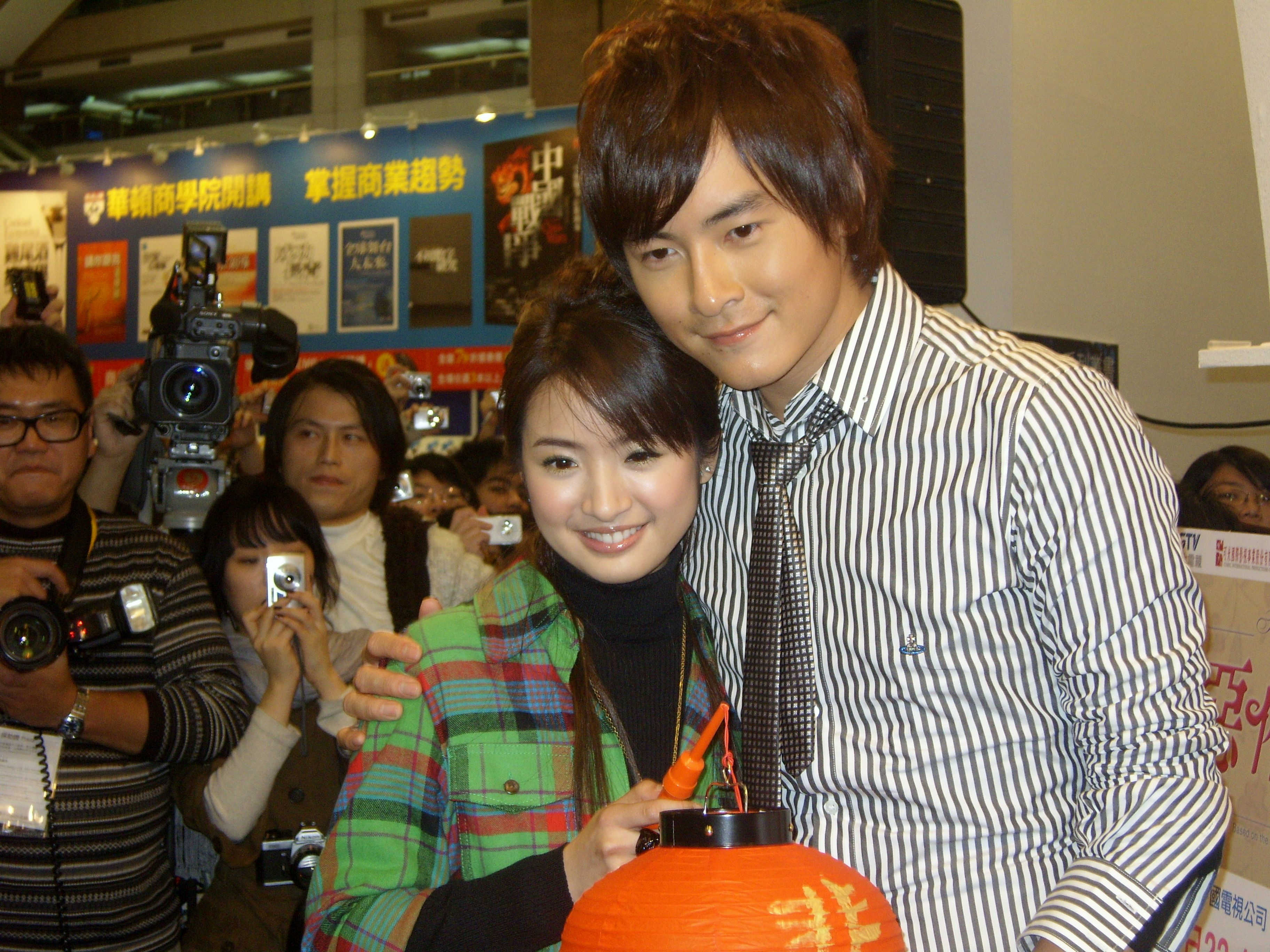 2008 Taipei International Book Exhibition: Ariel Yi-cheng Lin and Joseph Yuan-chang Cheng, in a signing event of Taiwanese TV Drama "They Kiss Again" presented by Cité Group Publishing.